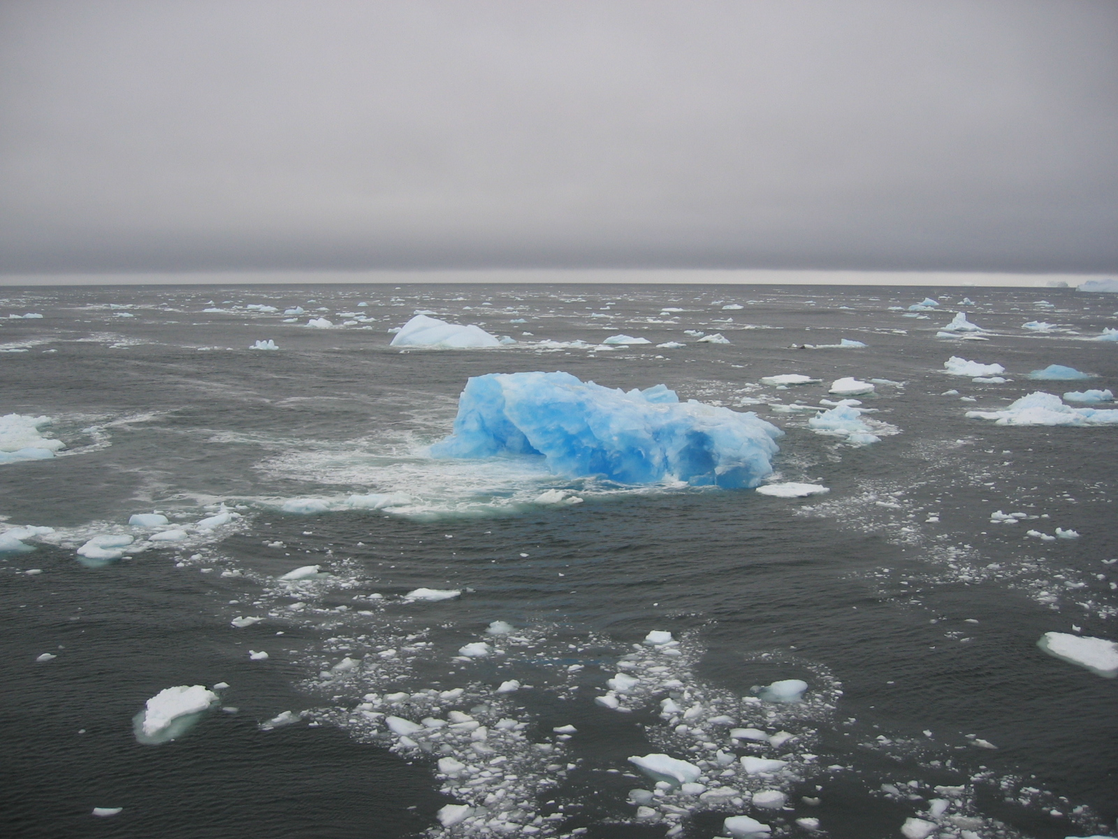 blue ice at south polar circle